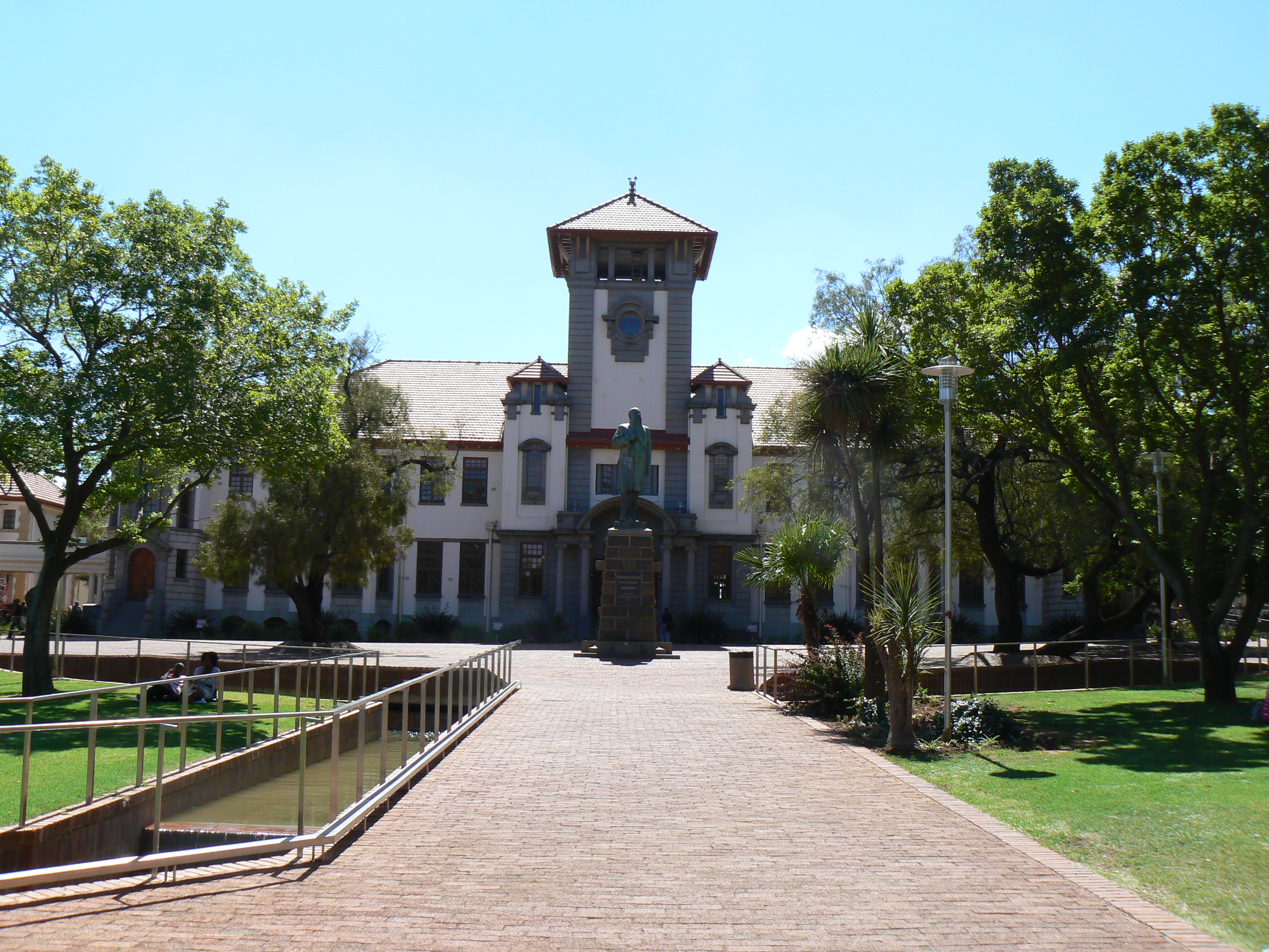 Main Building, University of the Orange Free State, Bloemfontein This media shows a South African Protected Site with SAHRA file reference 9/2/302/0064.